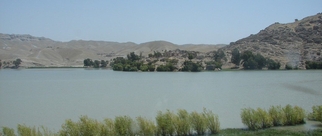 A reservoir at Darunta Dam, in Nangarhar province of Afghanistan.